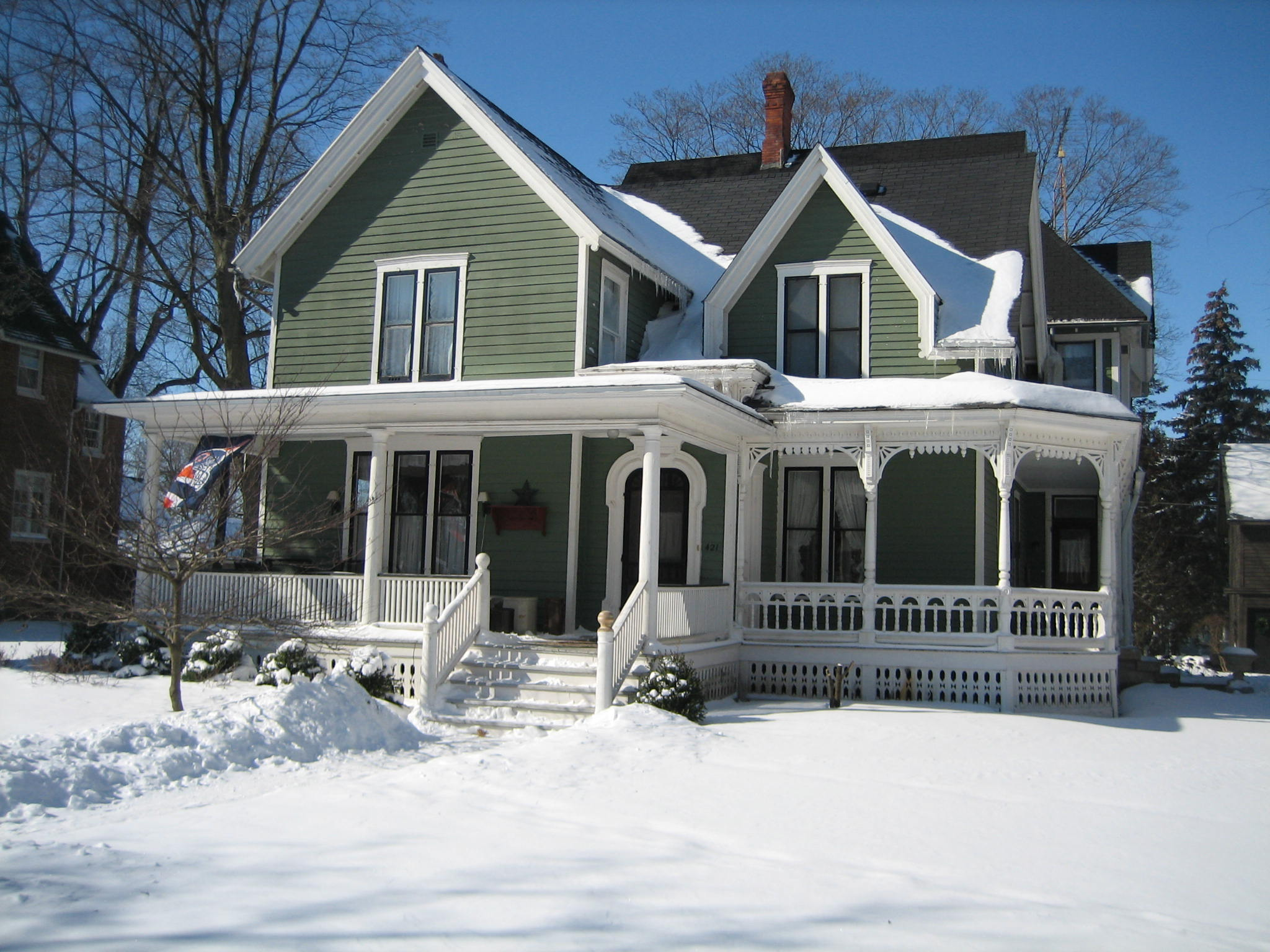 421 Somonauk St., Abram Ellwood House, Sycamore, Illinois. Sycamore Historic District, National Register of Historic Places.